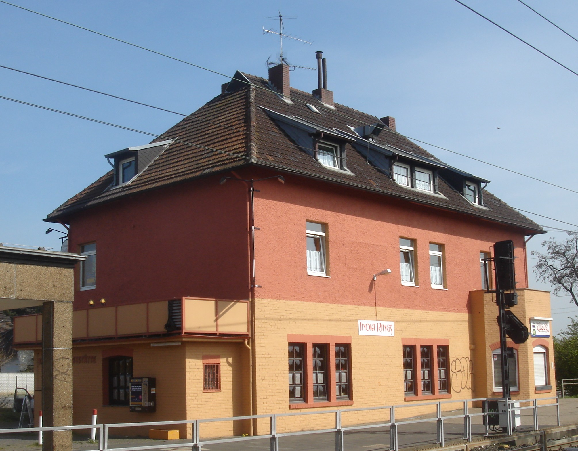 Train station Bornheim-Hersel, Germany, now a tram stop